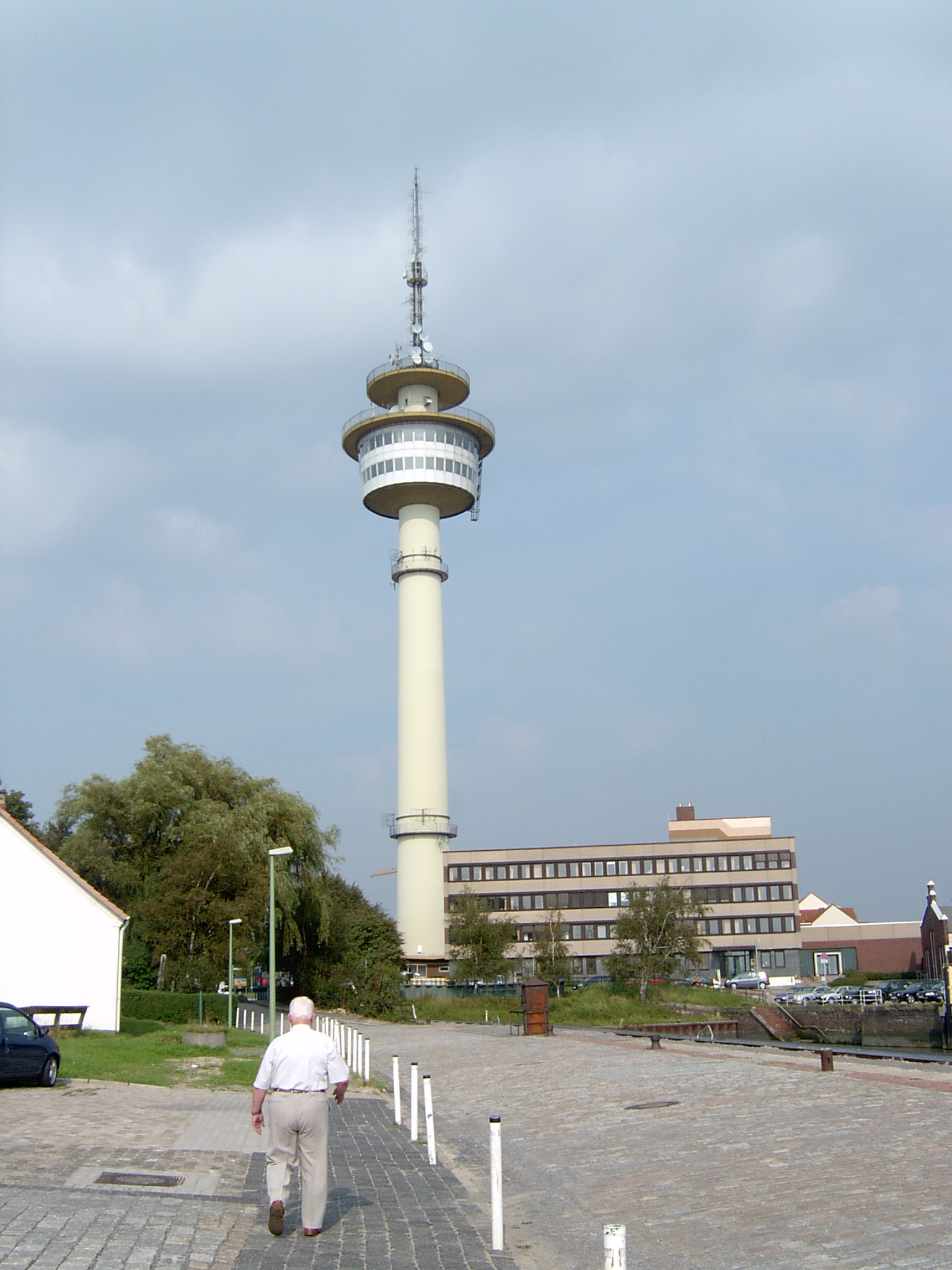 Radar Station in Bremerhaven